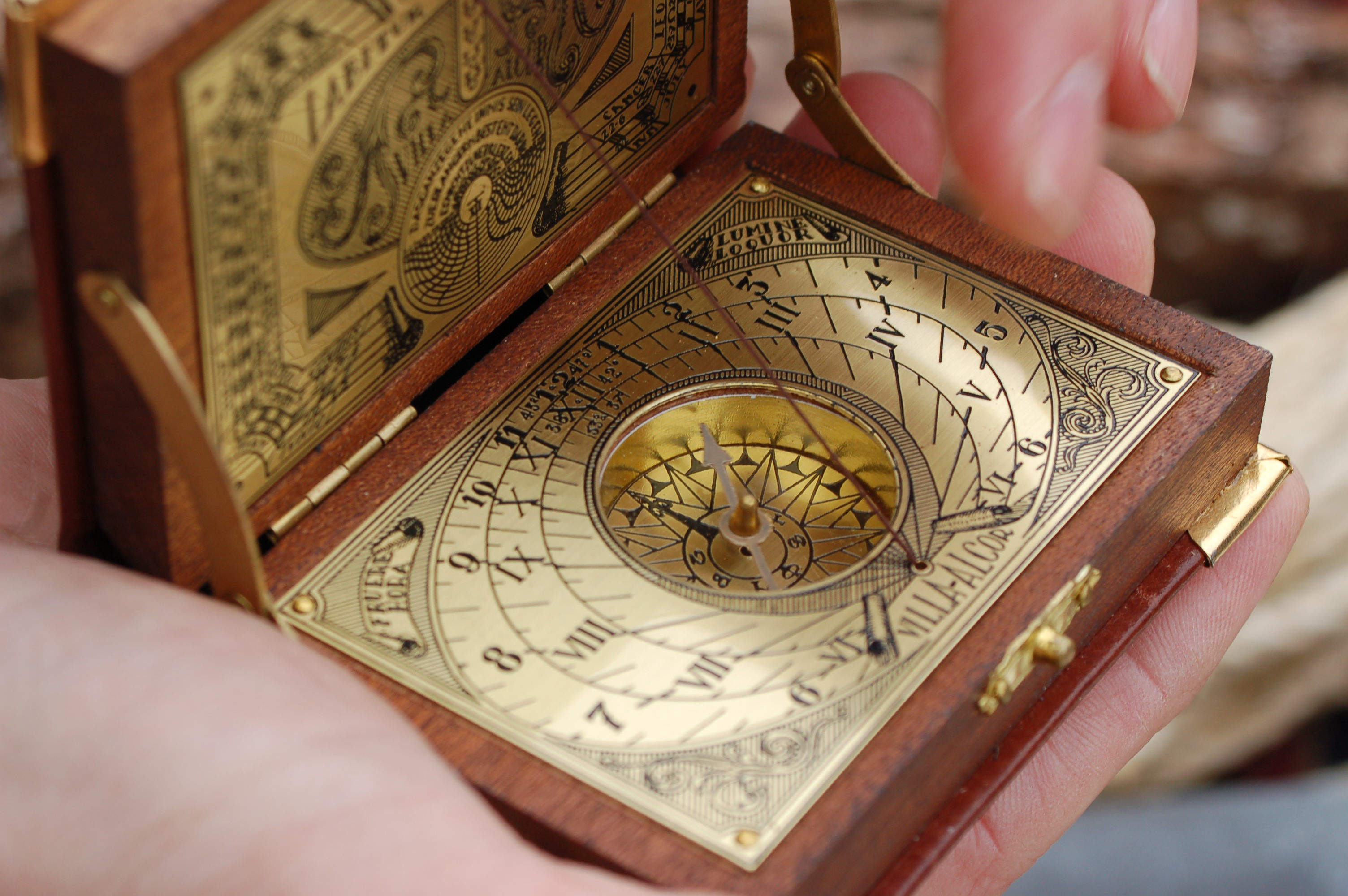 Compass. Reenactment of the 400th Anniversary of the First Landing (1607) of the Virginia Company colonists at First Landing State Park in April 2007.